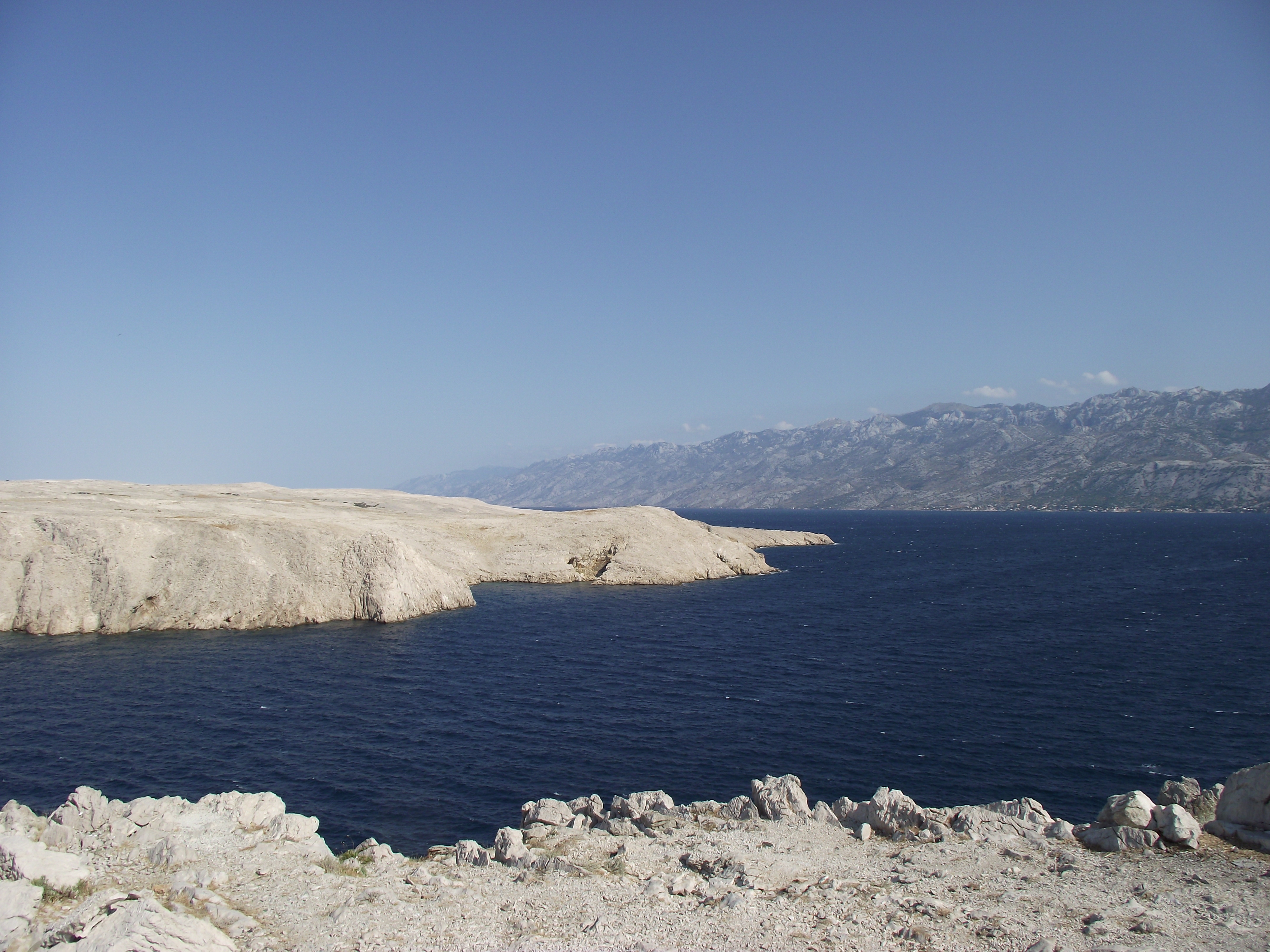 View from Paški most: the channel Ljubačka vrata and cape Paški oštrijak, in the southeastern part of Pag. The Velebit mountains are in the background.